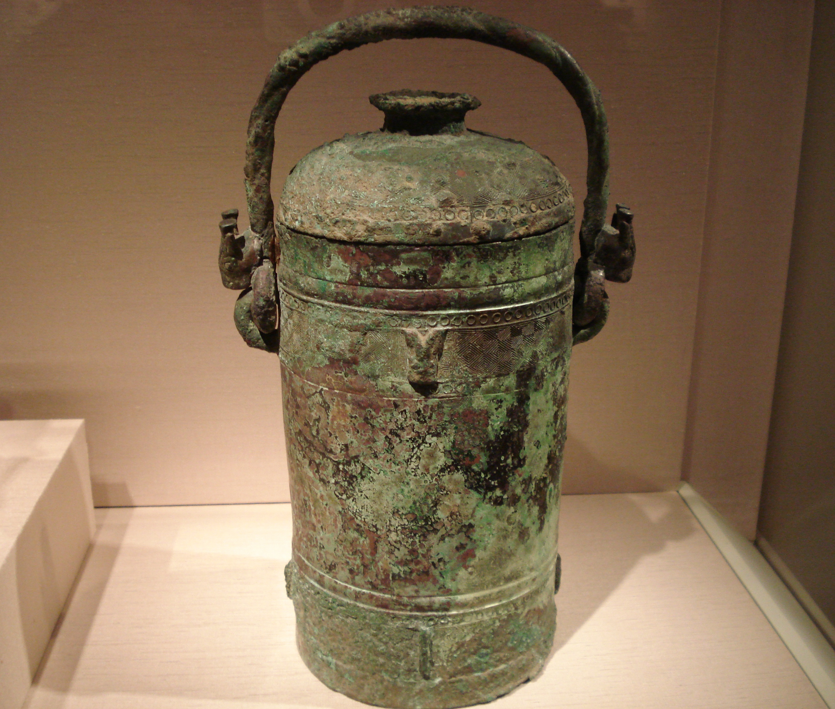 A Chinese cylindrical bronze ritual wine container (you) with a rounded handle, from the late Shang Dynasty (c. 1600 – c. 1046 BC), dated 11th century BC.